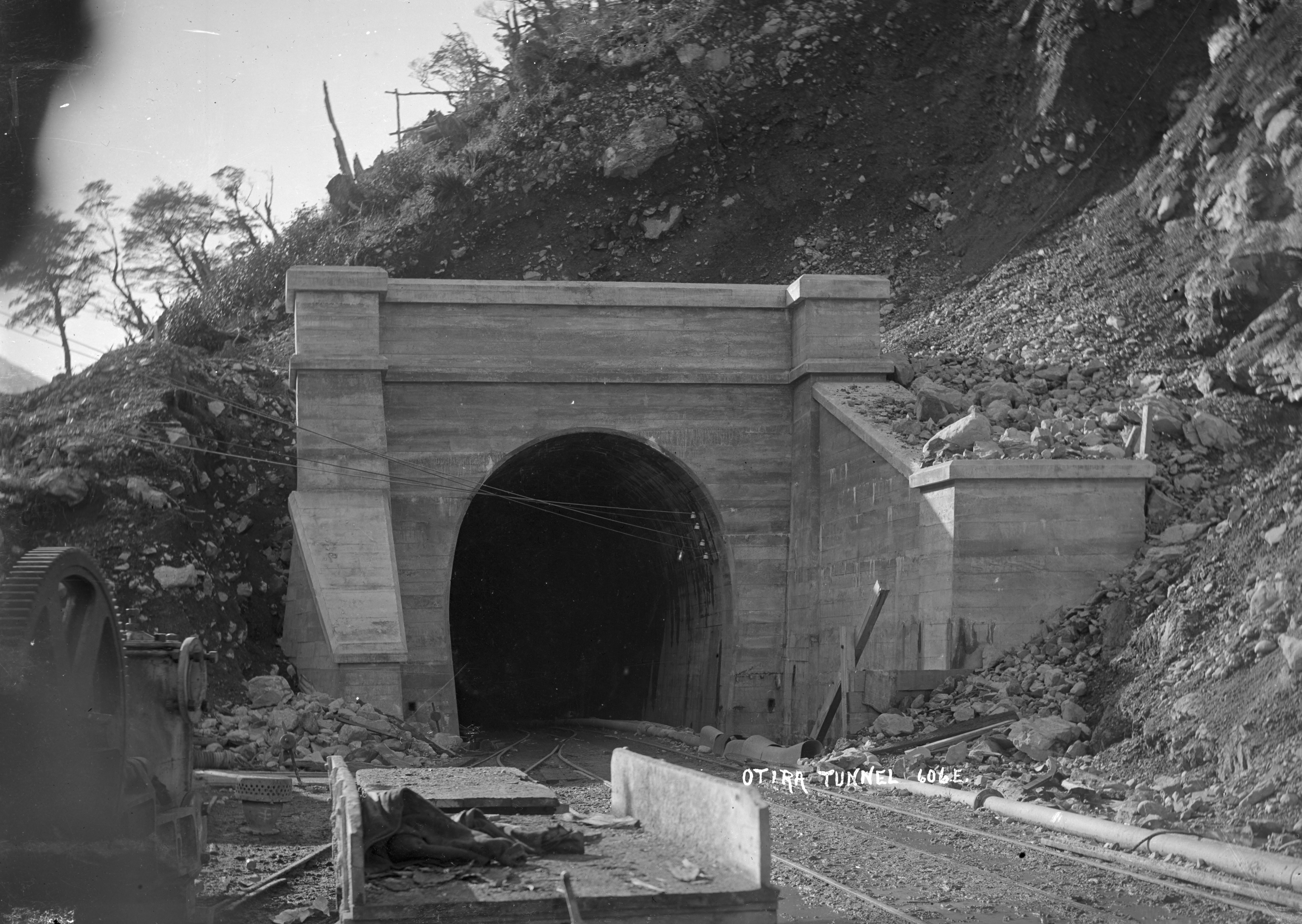 View of the mouth of the Otira railway tunnel at Arthur's Pass in 1910 during construction.